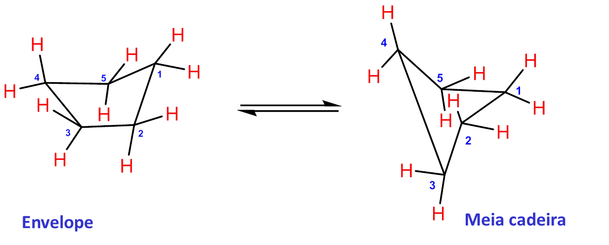 Conformações no ciclopentano